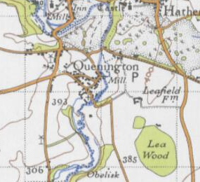 This is an excerpt of an historical map in which Quenington can be seen.